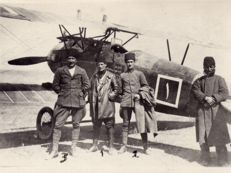 Albatros D.III in Turkish service during the War of Independence